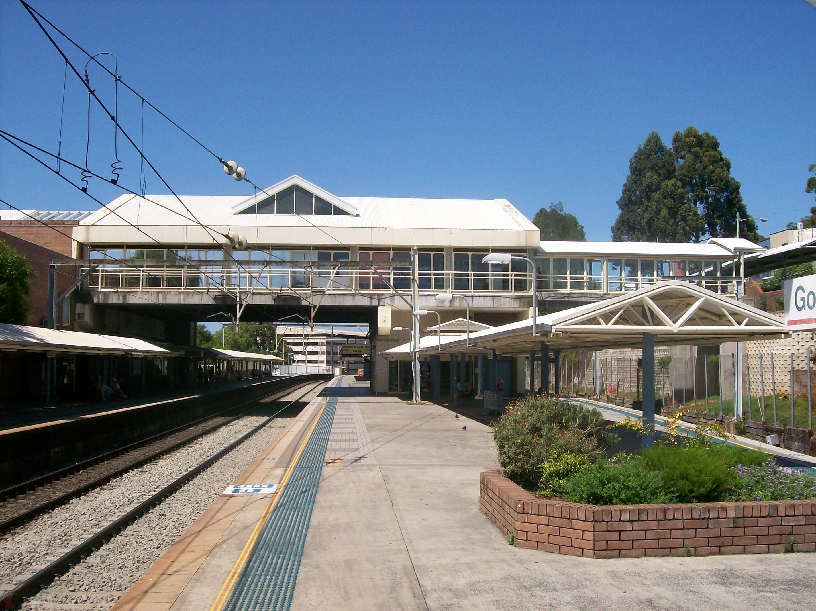 Gosford railway station concourse exterior